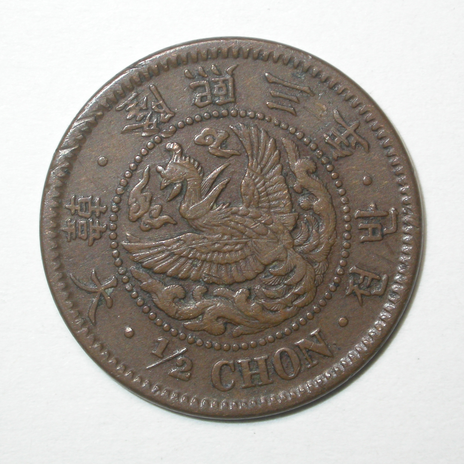 1/2 jeon, Coins of the Korean Empire (1909)